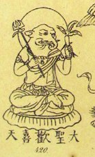 Daishō Kangi-ten (大聖歓喜天)